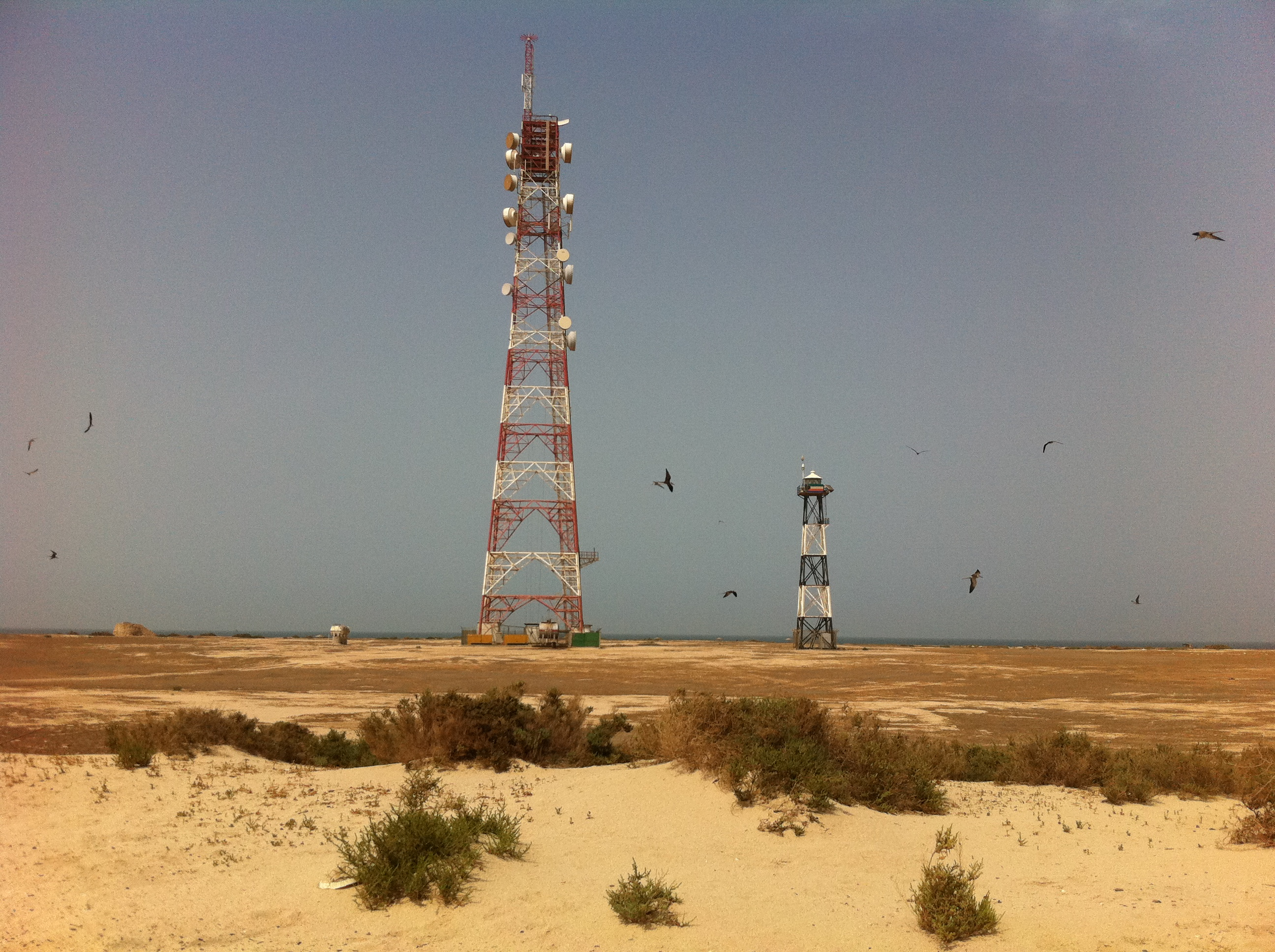 Kubbar Island antenna tower and lighthouse tower